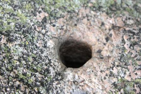 A closeup of one of the "roughly triangular" holes onthe Viking Altar Rock.